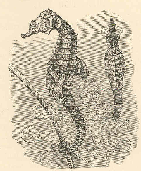 Sea-horses (Hippocampi) Male with his brood-pouch is on the left Subject: Sea horses Tag: Fish